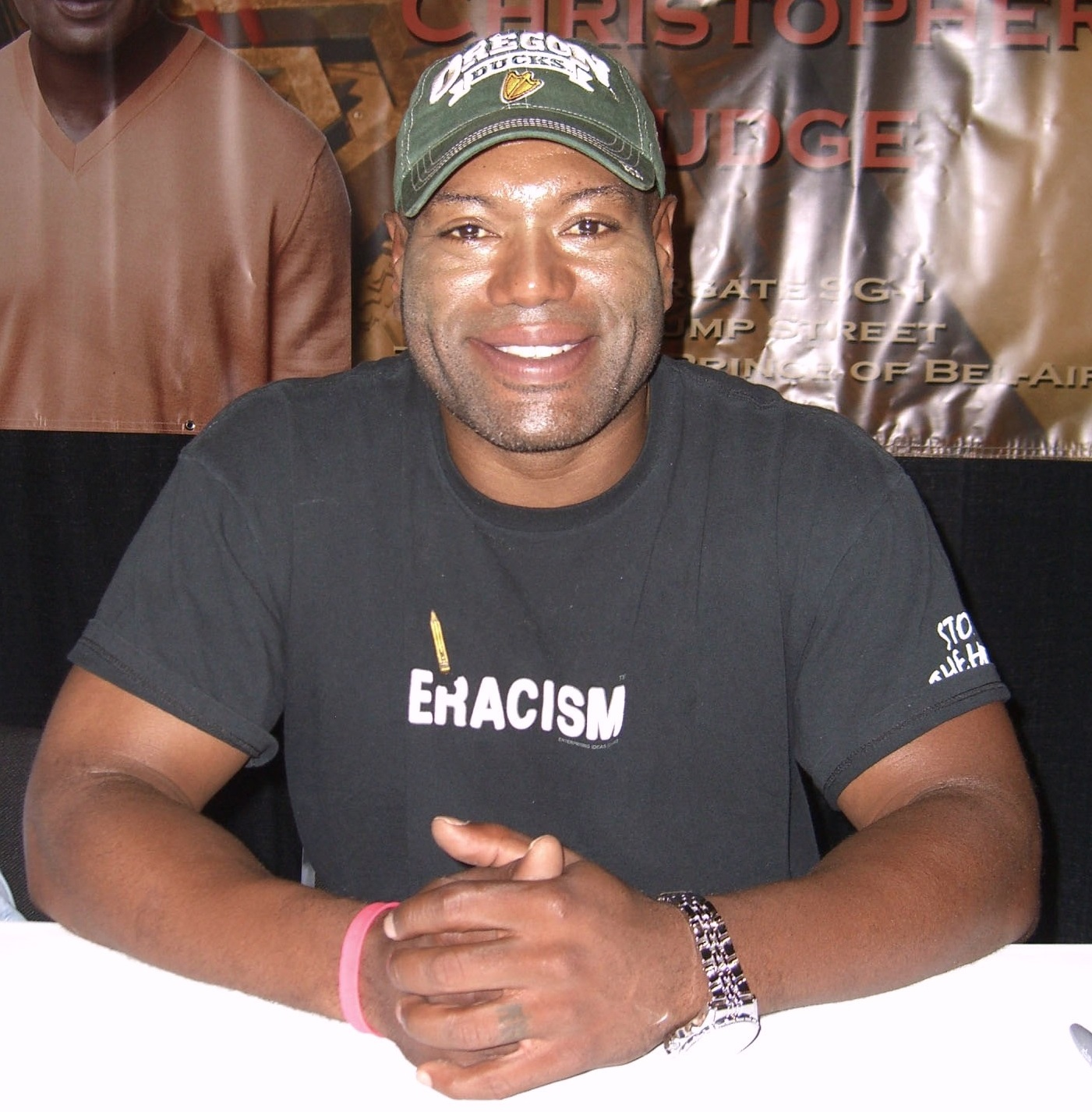 Actor Christopher Judge at the New York Comic Convention in Manhattan, October 9, 2010. Photo by Luigi Novi. This photo may be used, modified and published for any purpose, only if the photographer is visibly credited in each instance in which it is used. (See licensing information below.) Publication of this photo without proper attribution constitute copyright infringement. For more information on my photos, you can contact me here.